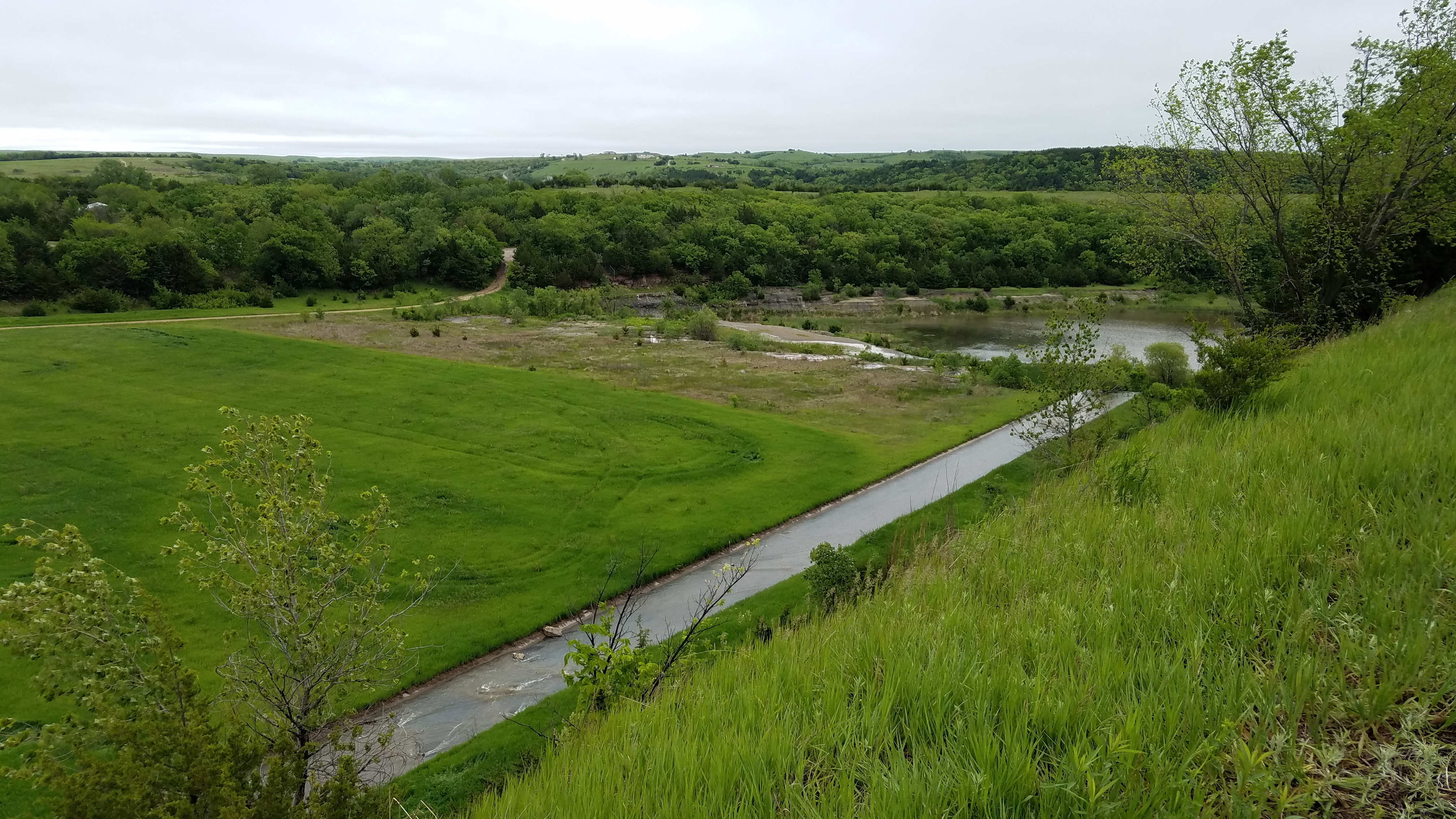 Tuttle Creek Lake exposed rock and beaver dam 20190521.